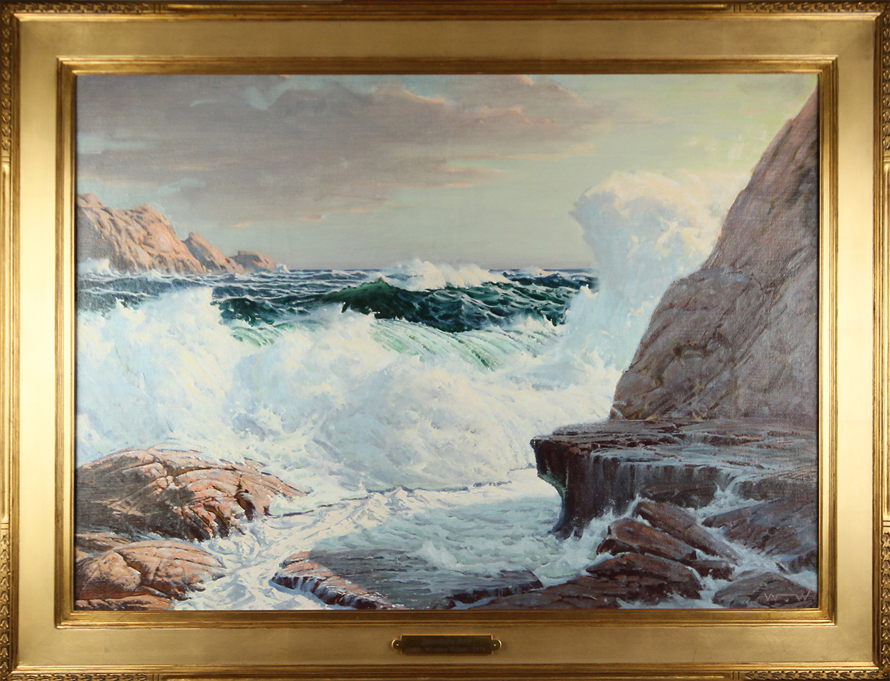 WInslow WIlson original